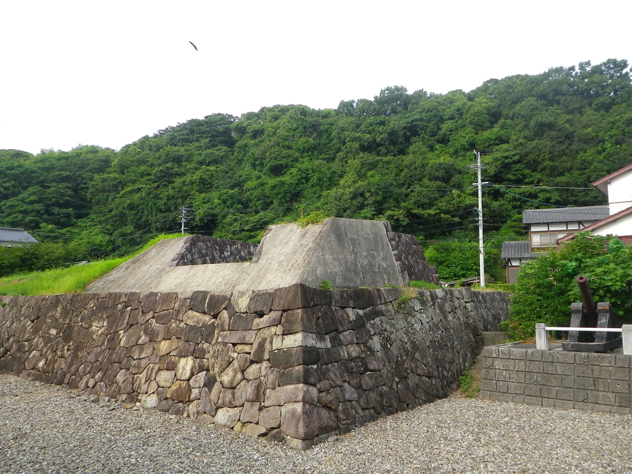 Kabasaki houdai